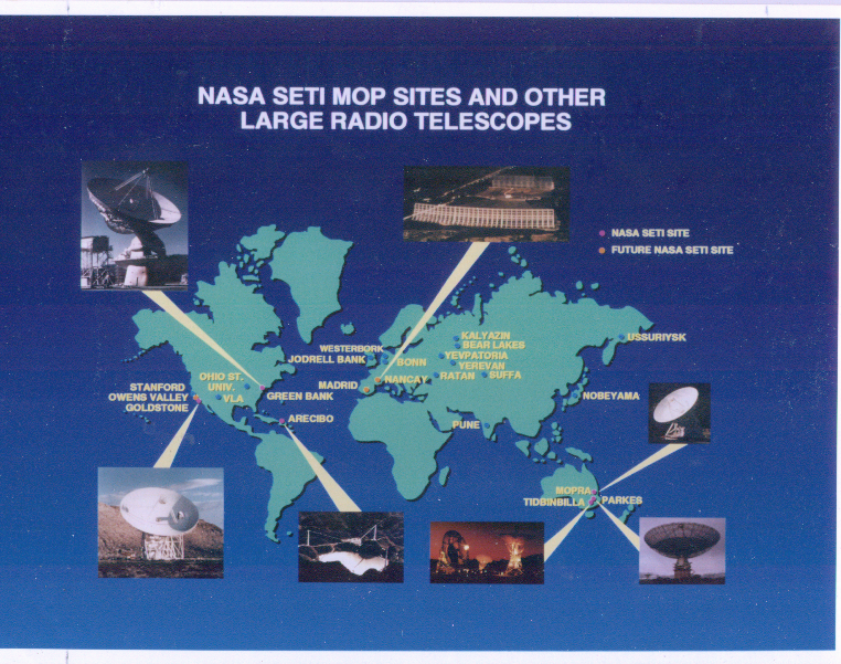 NASA SETI (Search for Extraterrestrial Intelligence) MOP (Microwave Observing Project) sites and other large telescopes